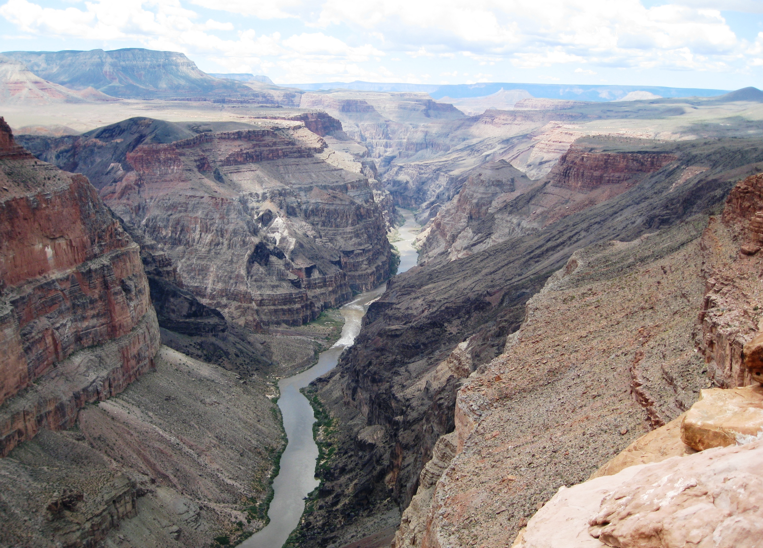 From the west side of the Toroweap area. There is about a 900 meter (3000 foot) drop to the Colorado river. sw2 538 (Note the small volcano on South Rim, above river, part of Uinkaret volcanic field, caused by the Toroweap Fault-(and the break-off Hurricane Fault)) Toroweap Point, 6,293 feet (1,918 m), and below it, Toroweap Overlook, is at the southeast of Toroweap Valley, mostly a due-north trending valley, north side Colorado River, Grand Canyon, with small Uinkaret Mountains, on west border of valley (valley not in photo, Tuweep, Arizona in valley). (west side of Uinkaret Mtns is Hurricane Fault location. Sources: Roadside Geology of Arizona, and AZ atlases.